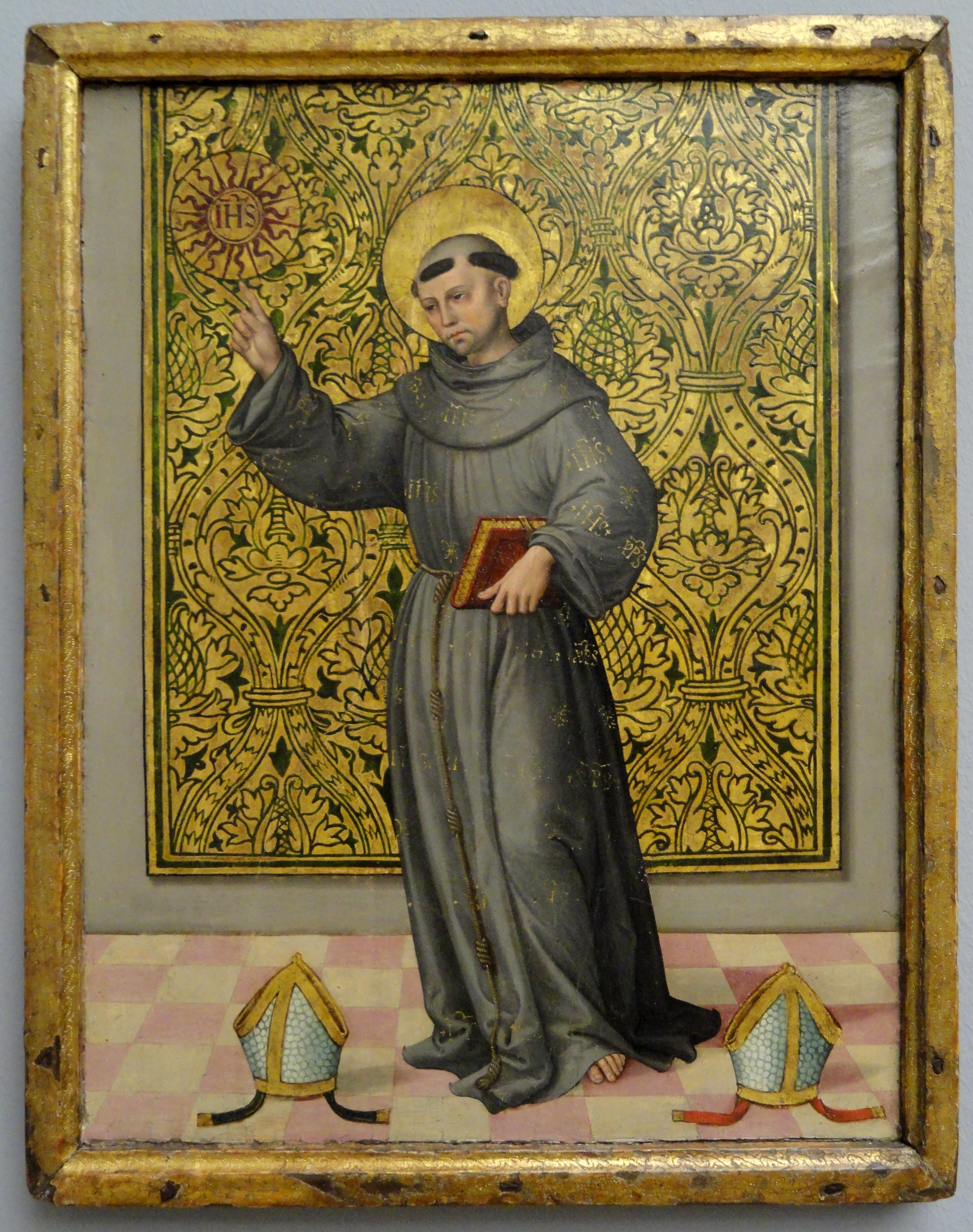 Exhibit in the Statens Museum for Kunst, Copenhagen, Denmark. Photography was permitted without restriction of all artworks old enough to be in the public domain. This artwork is in the public domain because its creator died more than 70 years ago.